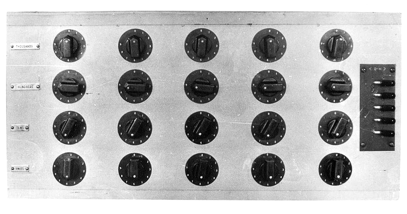 Wartime photograph of the Colossus panel of rotary switches for the fiver counters (in the five columns) used for setting the threshold values above which a count and related parameters would be printed out. The rows read (top to bottom) THOUSANDS, HUNDREDS, TENS, UNITS. All five values set to 976.